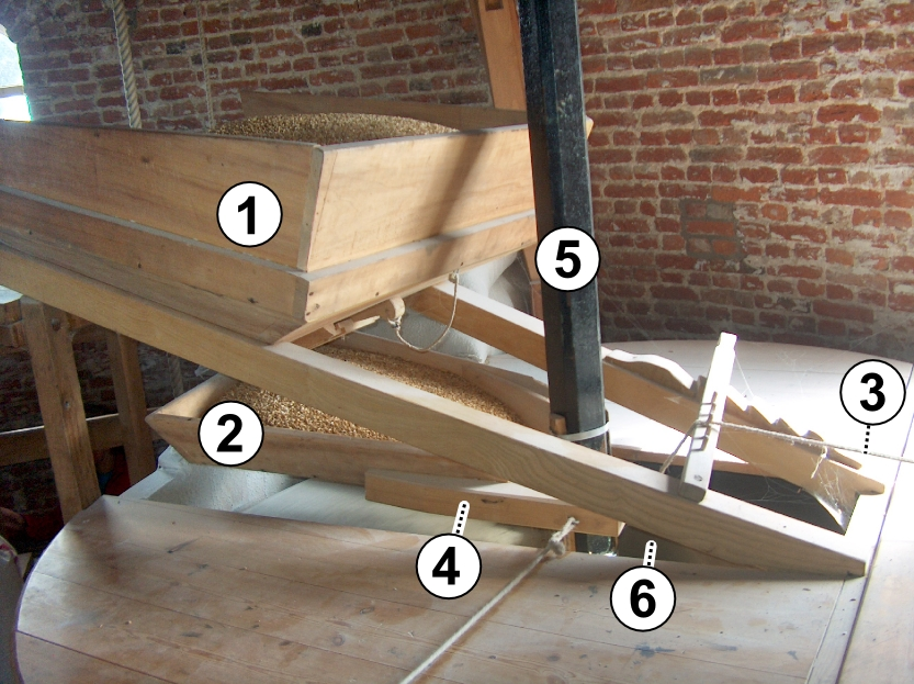 Detail of the mill off Broechem, Belgium.